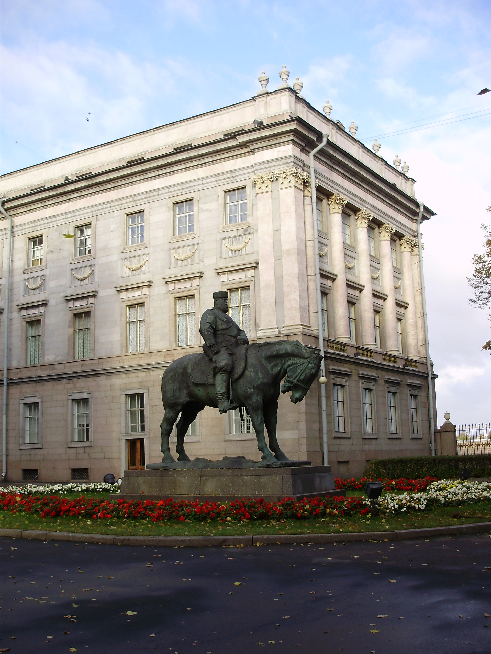 Monument to Alexander III of Russia (work of Paolo Troubetzkoy) in front of the Marble Palace in Saint-Petersburg.